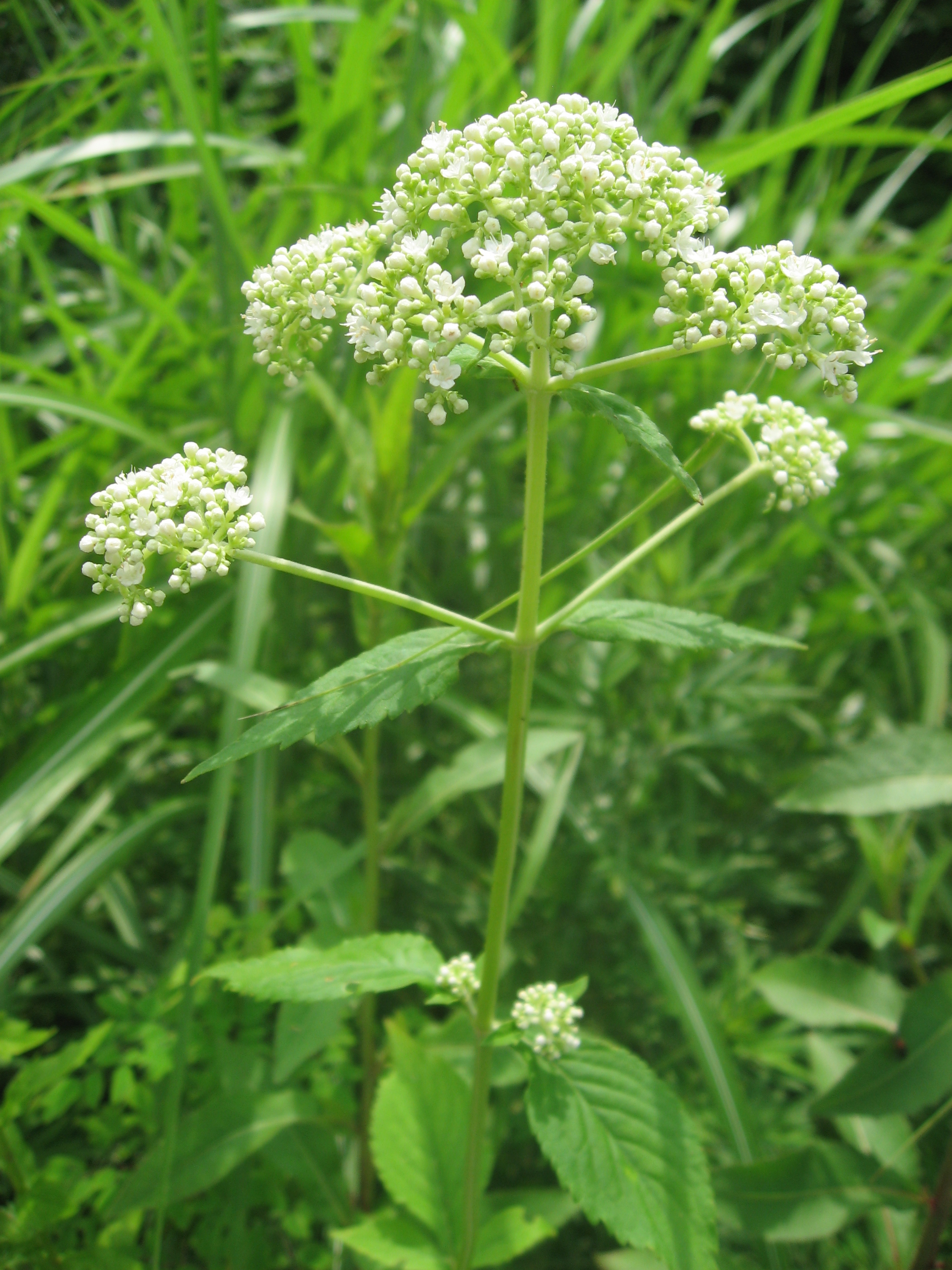 Patrinia villosa,Aizu area,Fukushima pref.,Japan